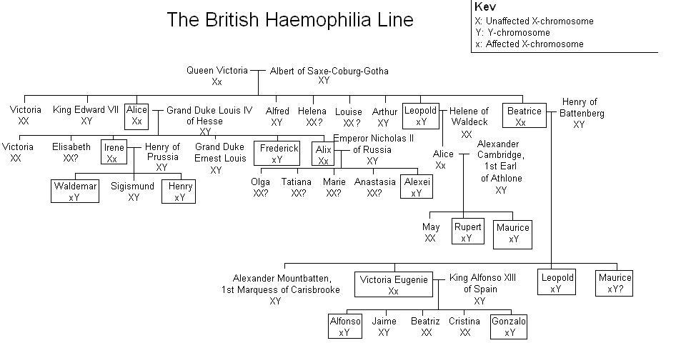 A family tree of how hemophilia descended through the descendants of Queen Victoria.